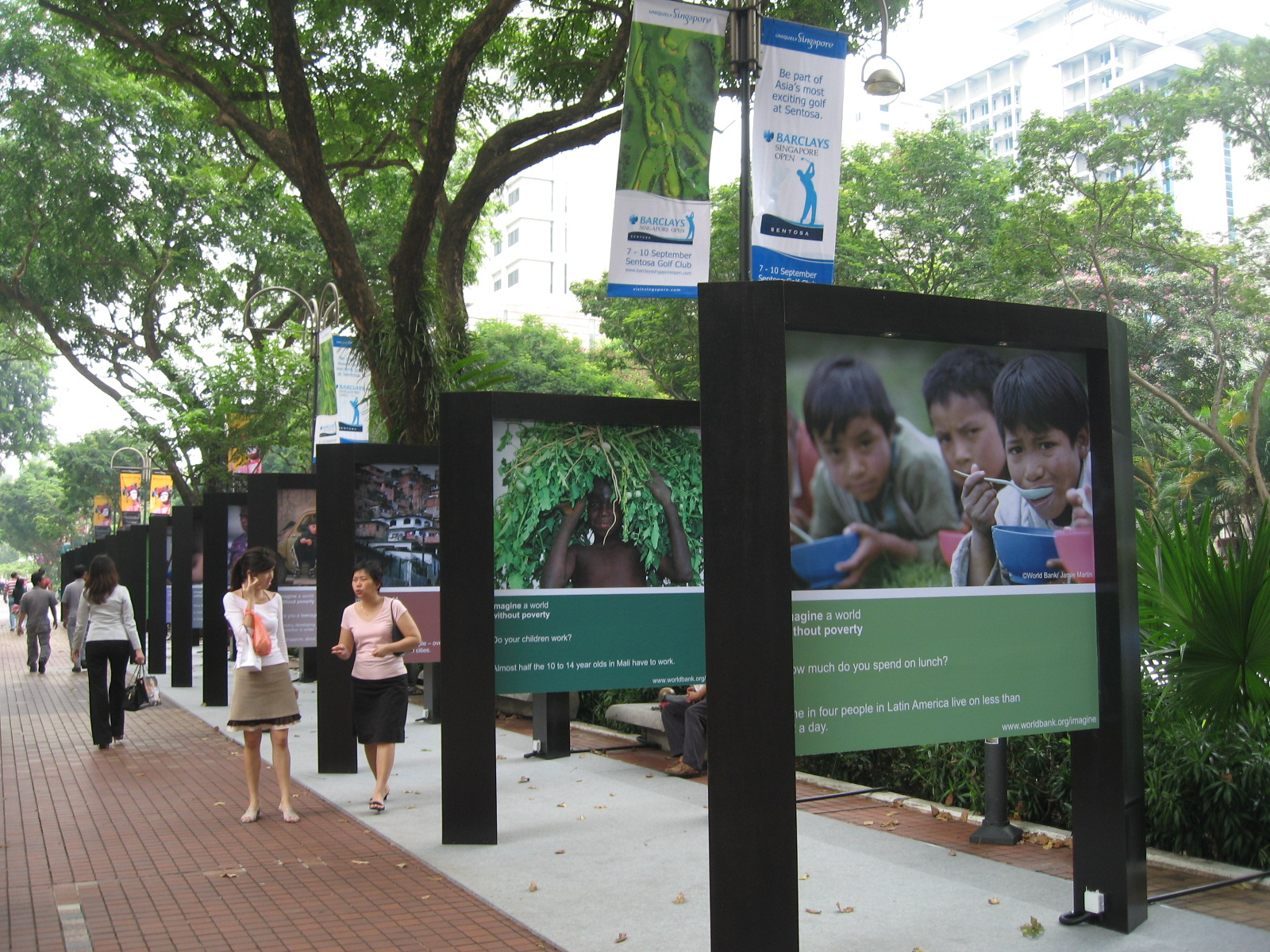 Poverty exhibition by the World Bank Group, Singapore 2006.